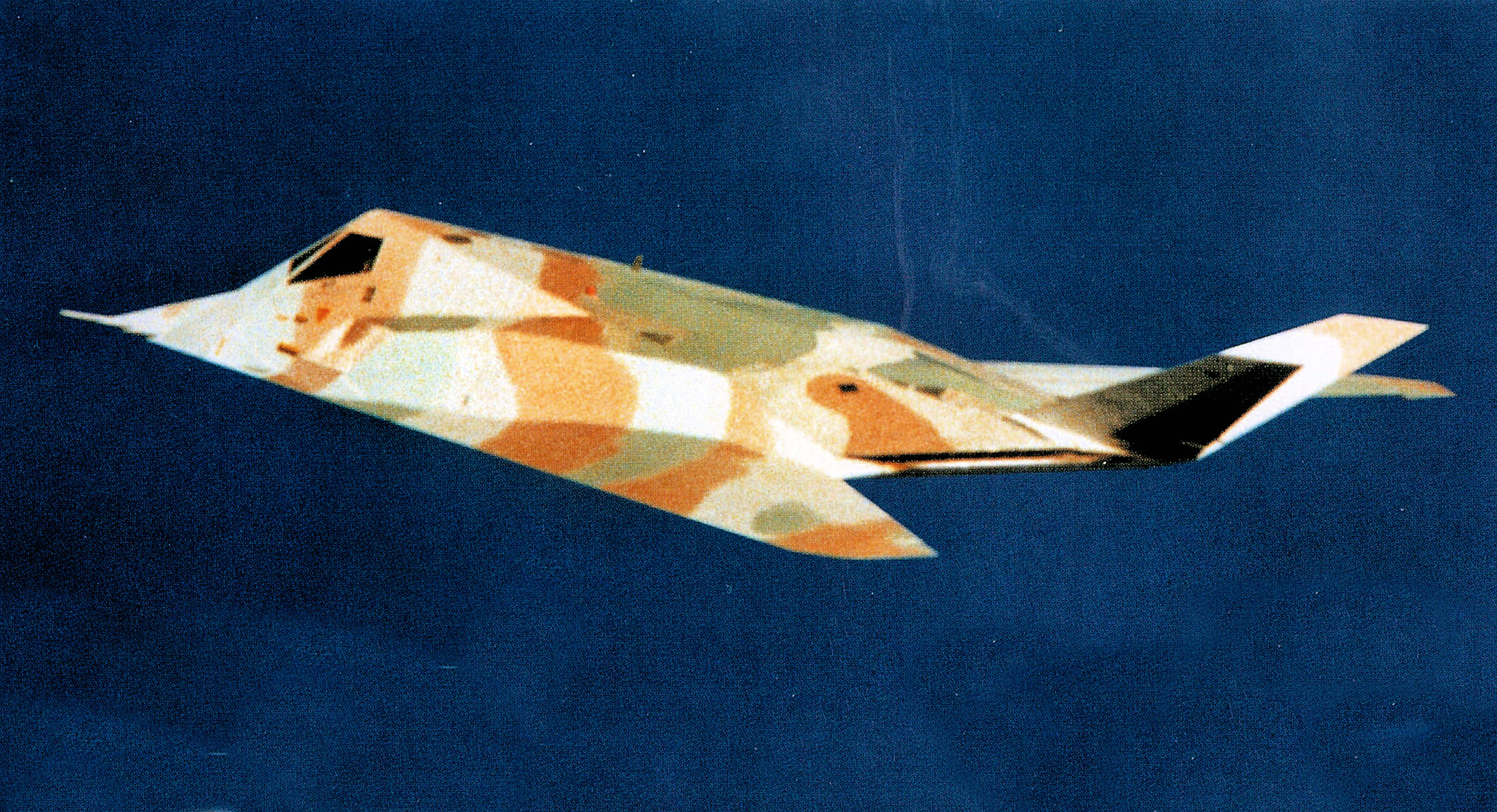 Lockheed F-117A Nighthawk 79-10780 in a test flight testing a desert camoflauge motif.